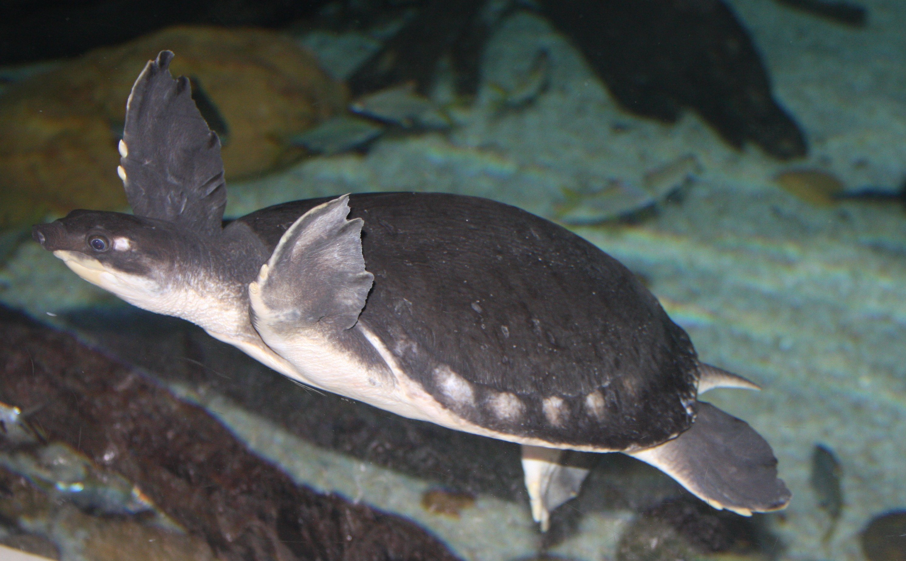 Carettochelys insculpta in Siam centre, Bangkok